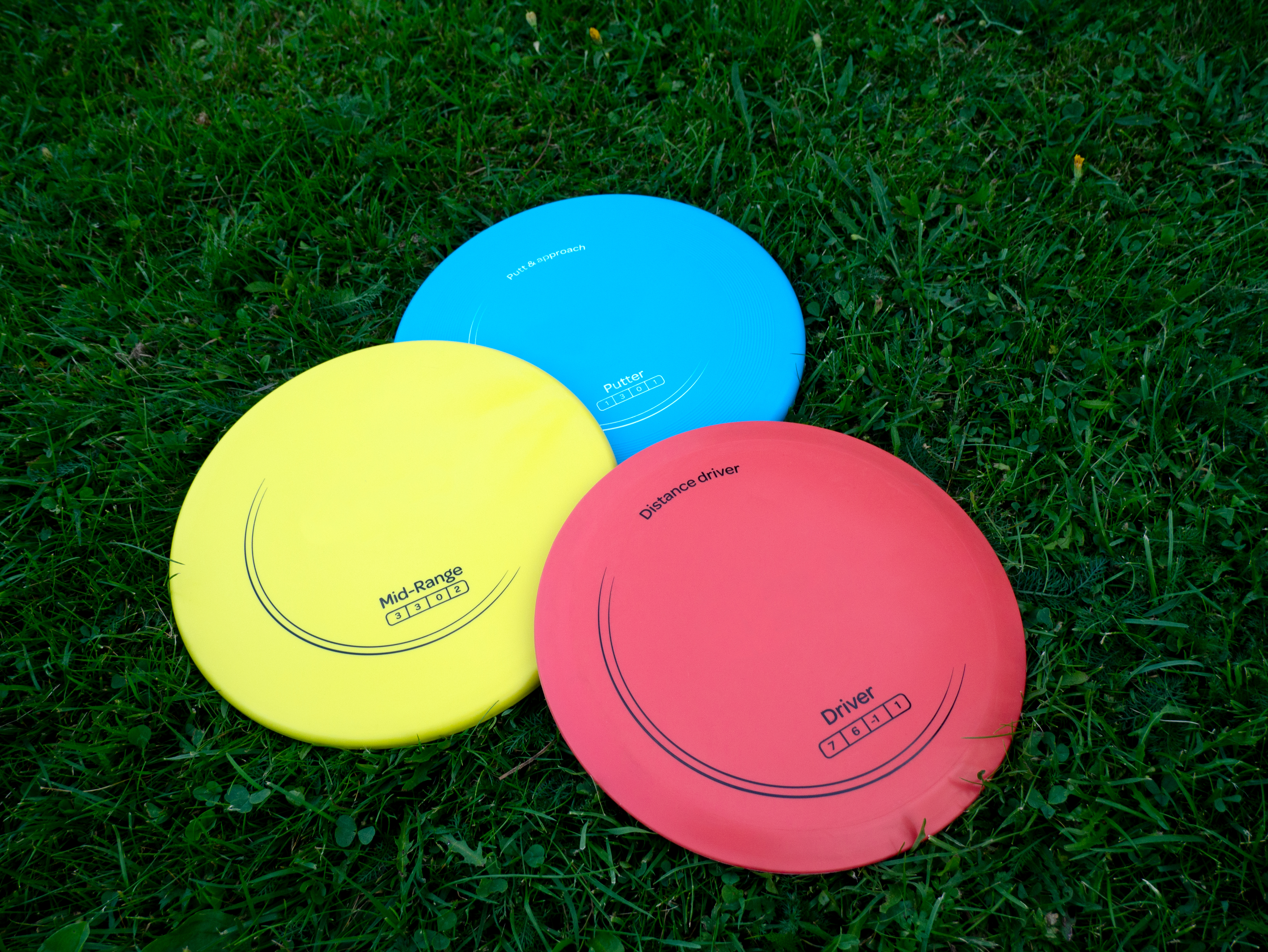 Disc golf discs.